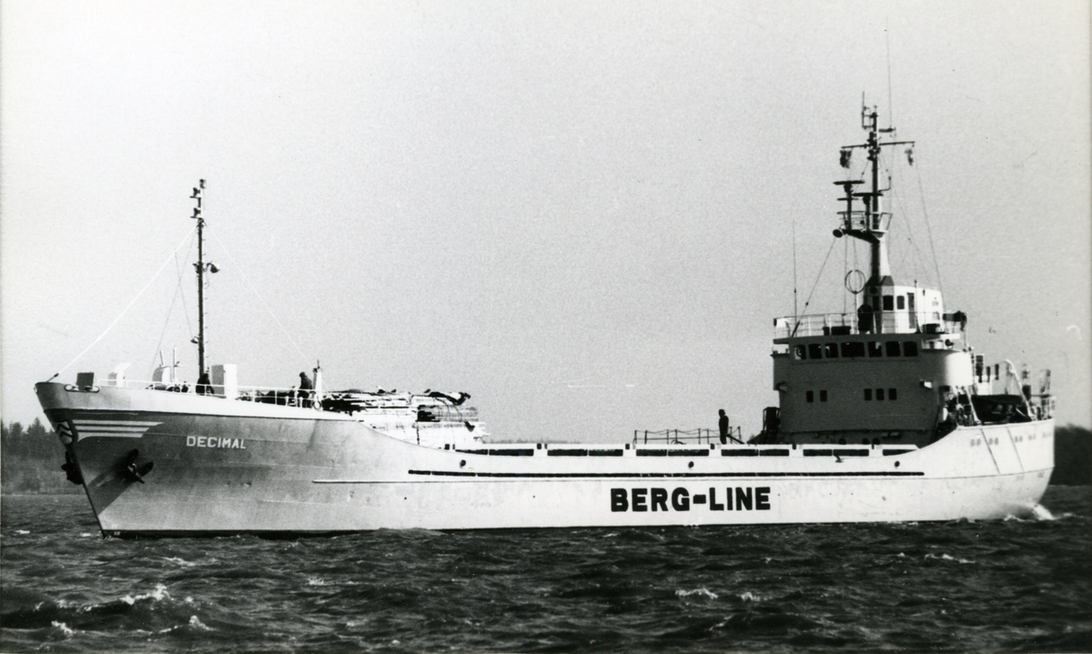 General cargo ship DECIMAL (IMO 7034751) built at J.J. Sietas Schiffswerft, Hamburg-Neuenfelde (yard № 561, Sietas type 58), 26-09-1970 launched as ANDREAS NAGEL, 24-10-1970 delivered as DECIMAL, later names: 1980 PASCALE KERSTEN, 1981 ESDÖRP, 1981 NAROS, 29-11-1981 foundered off Egmond aan Zee/Netherlands (52.71N, 4.04E), 16-01-1982 raised, 1982 BU Zwijndrecht/Netherlands; photo by J. Robert Boman (1926 - 2002), copyright owned by Sjöhistoriska museet.